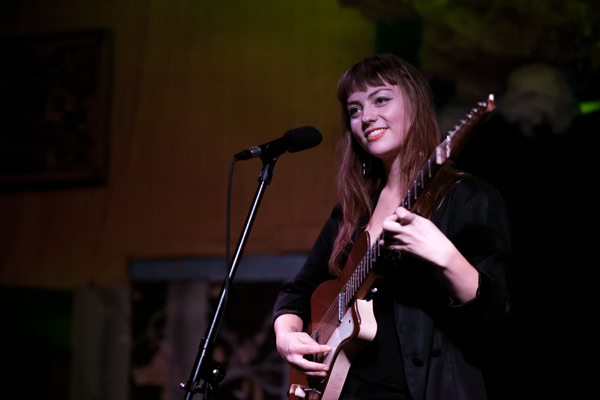 Angel Olsen performing at Glasslands Gallery in Brooklyn, November 12, 2012